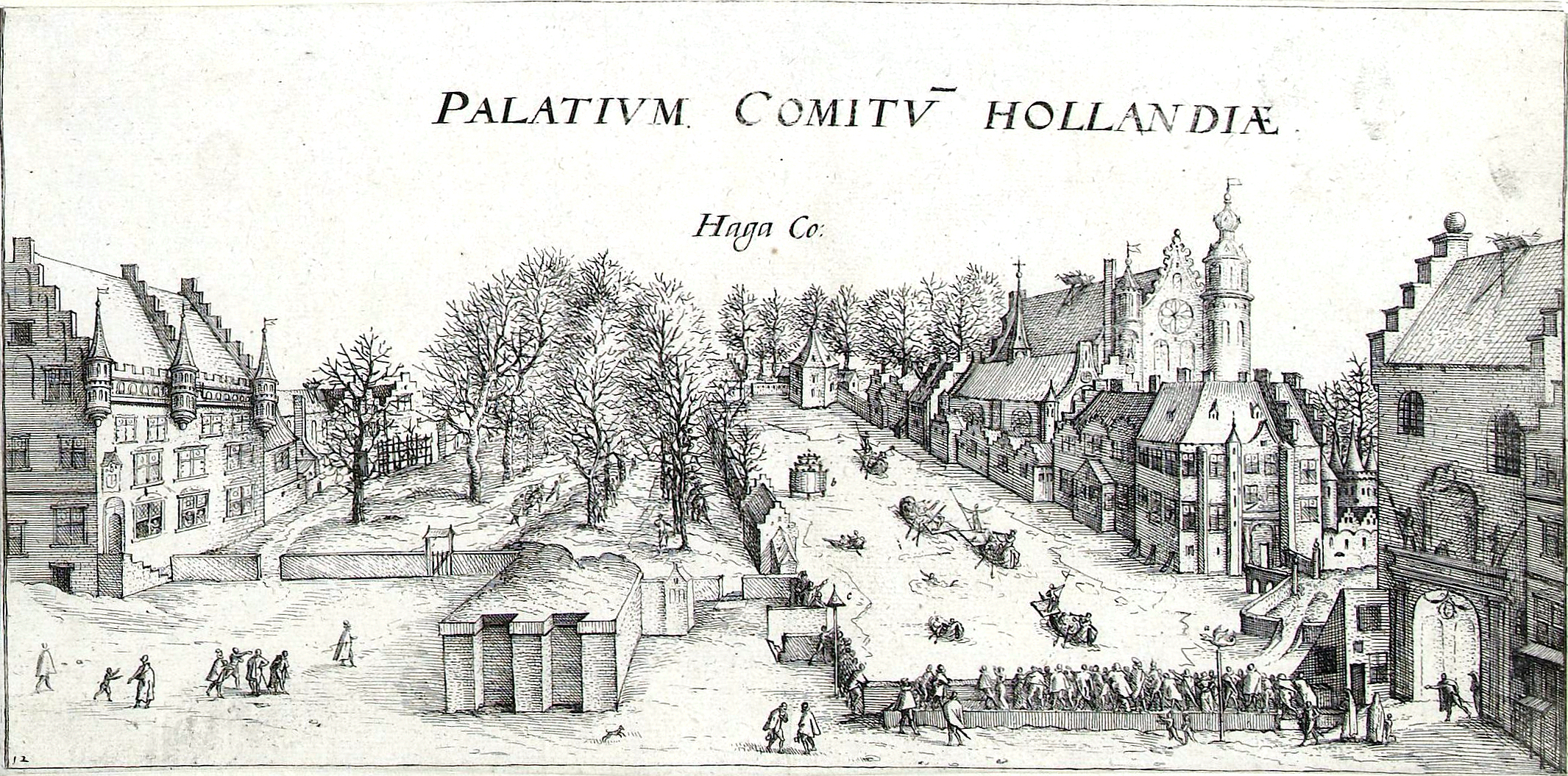 View of (left to right) Lange Vijverberg with at the front the Groene Zoodje (execution site), Hofvijver, Inner Courts and Prison Gate in The Hague in 1586. Detail: Entry of Leicester in The Hague, 1586. Delineatio pompae triumphalis qua Robertus Dudlaeus comes Leicestrensis Hage comitis fuit exceptus. (Title on the object.)